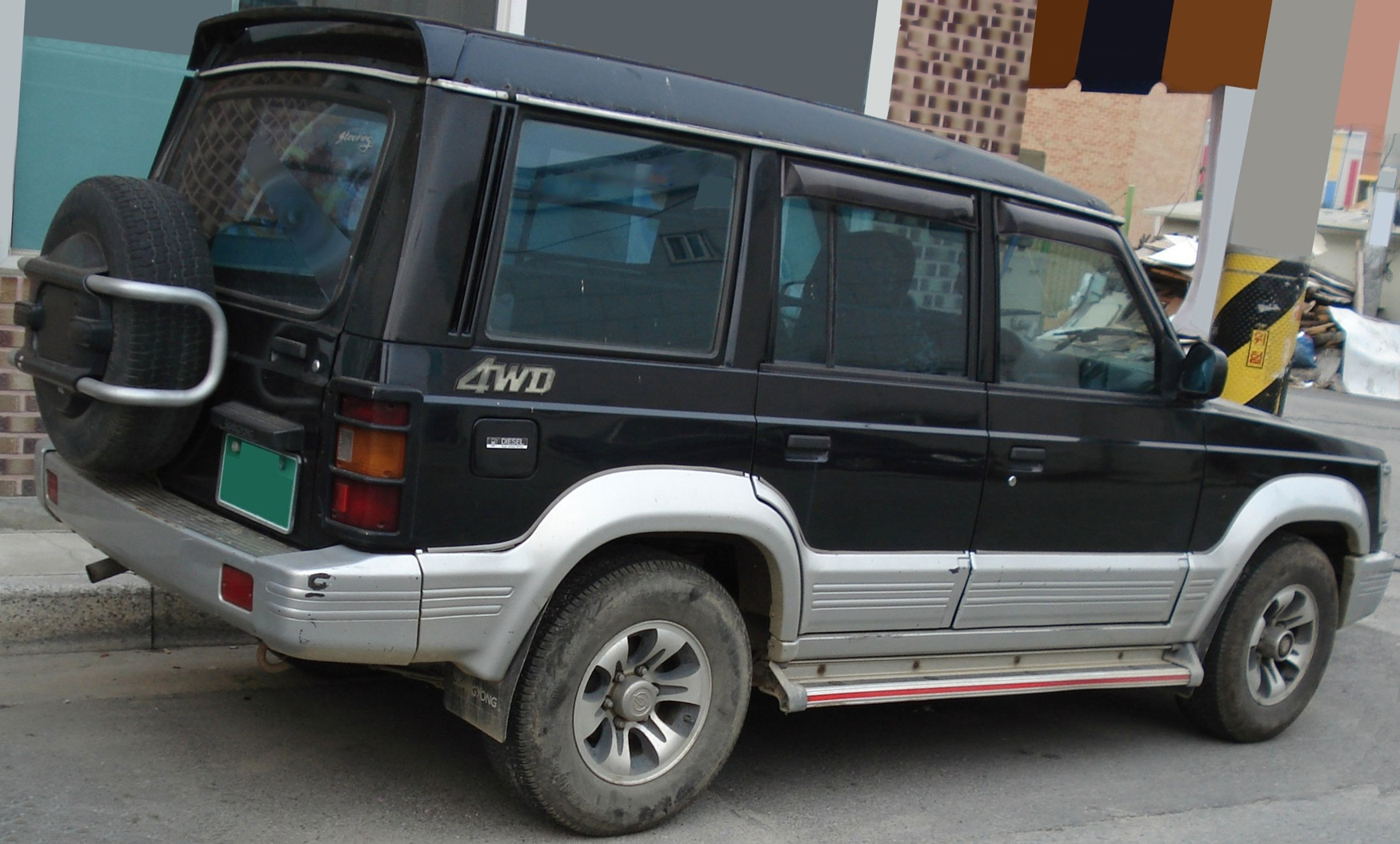 SsangYong Family